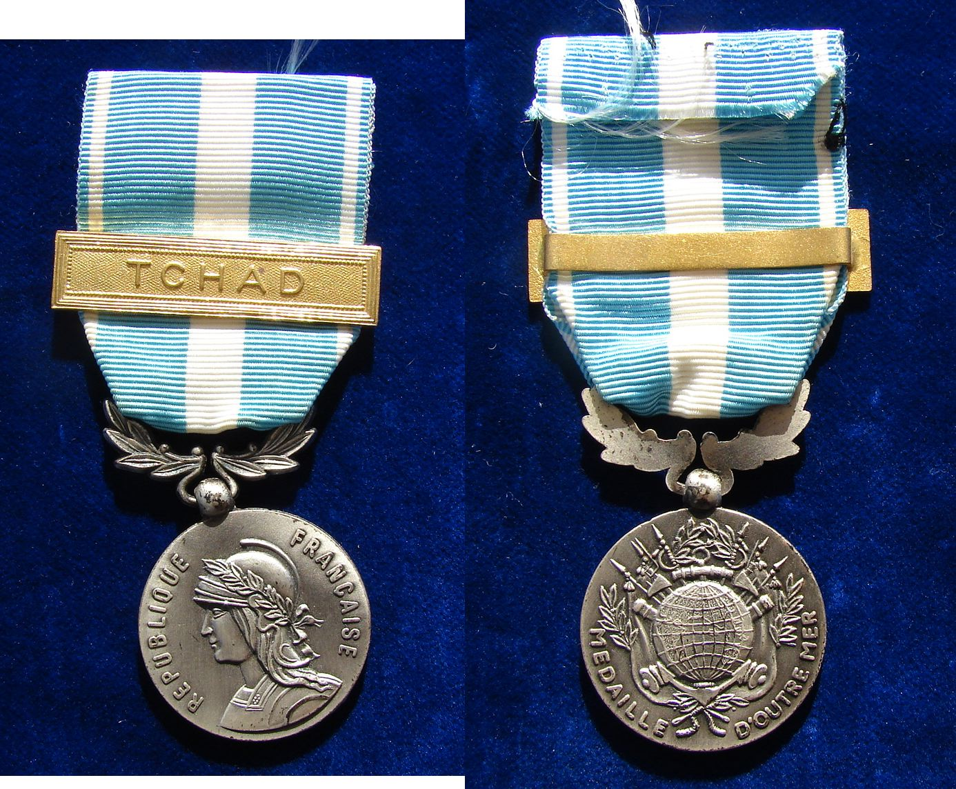 Médaille d' Outre Mer. The Overseas Medal (French: Médaille d'Outre-Mer) is a commemorative or campaign medal issued to members of the French Armed Forces for participating in operations outside national territory. It replaced the French Colonial Medal by decree on 6 June 1962. Silver, D. = 29 mm Bust of armoured Marianne l., around: "REPUBLIQUE FRANCAISE"/ Globe on top of trophies of military conquest, curved below: "MEDAILLE D'OUTRE-MER". Clasp: CHAD. Medallist: Georges Lemaire, 1853 Bailly - 1914 Paris Condition: EXTREMELY FINE+.